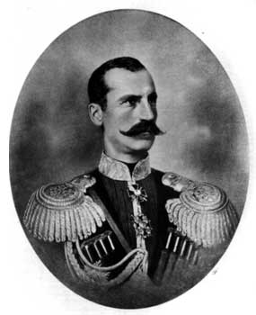 Count Sumarokov-Elston, Feliks Nikolayevich (1820-1870), was a Russian general.